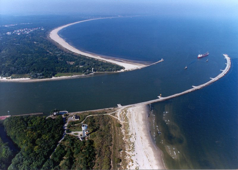 Świna estruation